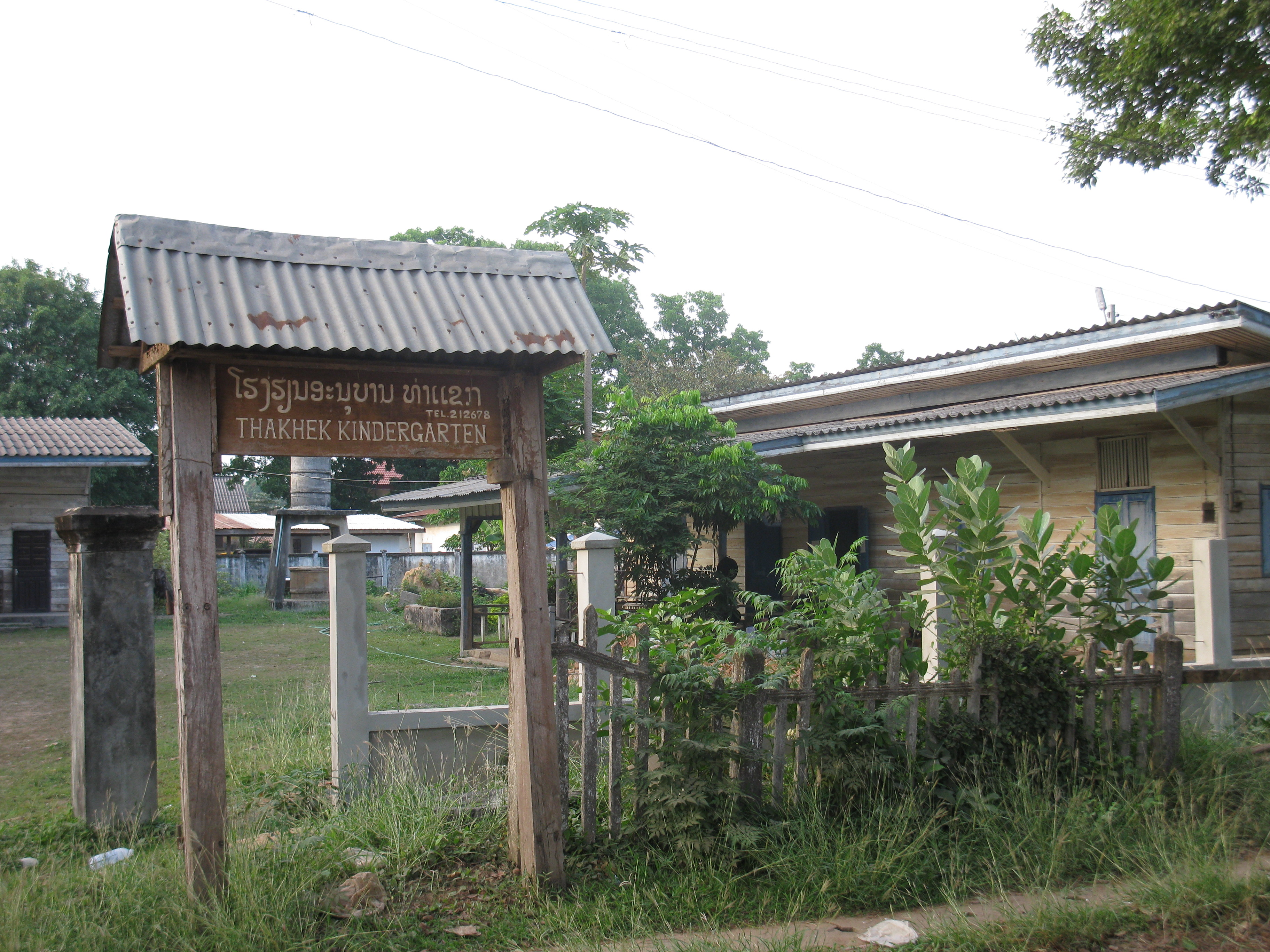 Kindergarden in Thakhek, Laos